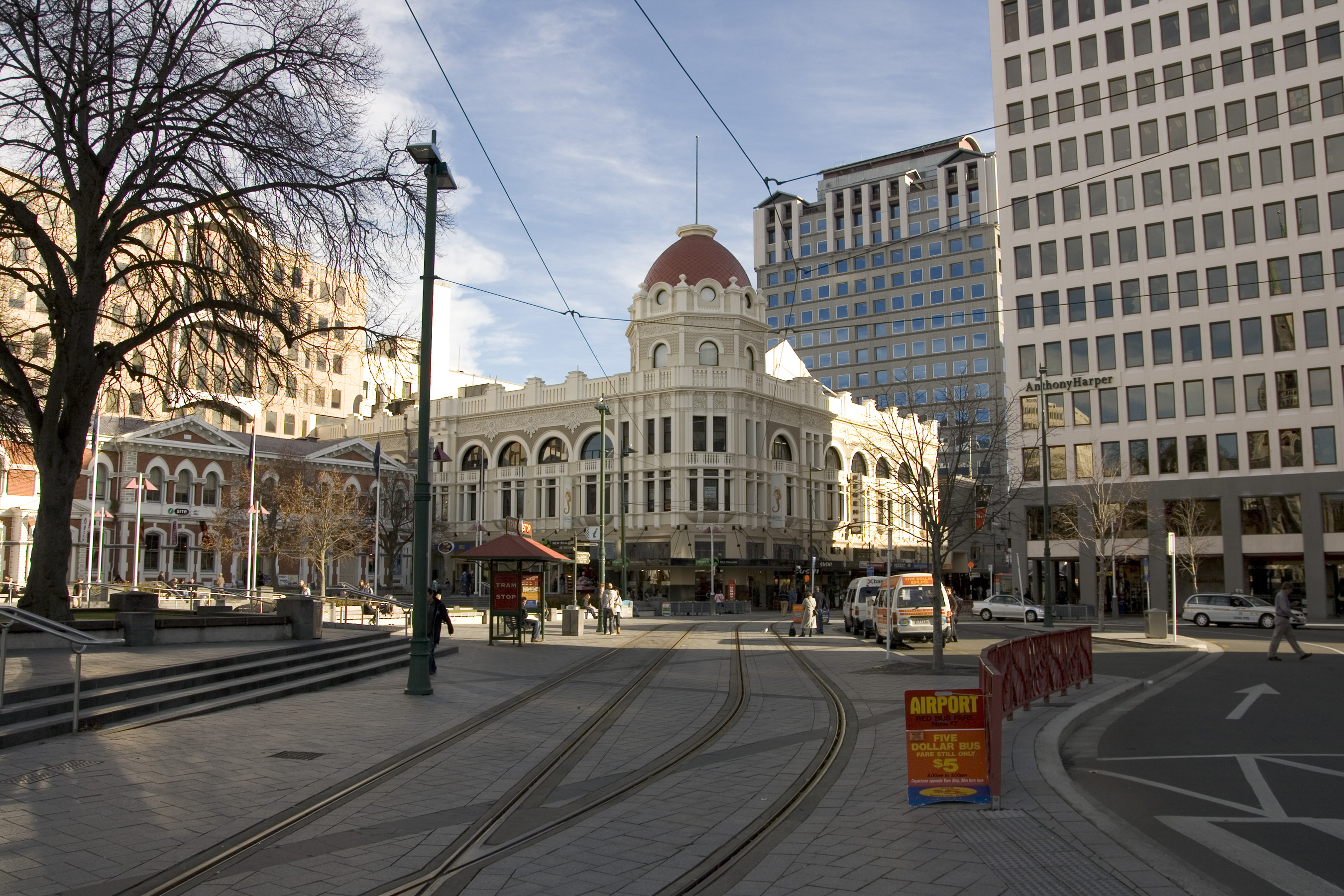 Christchurch Central, Christchurch, New Zealand